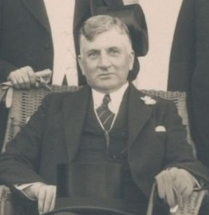 The Lieutenant-Governor of Ontario, in front of Spencer Wood, the official residence of Quebec's Lieutenant-Governor in Sillery, Quebec, Canada.